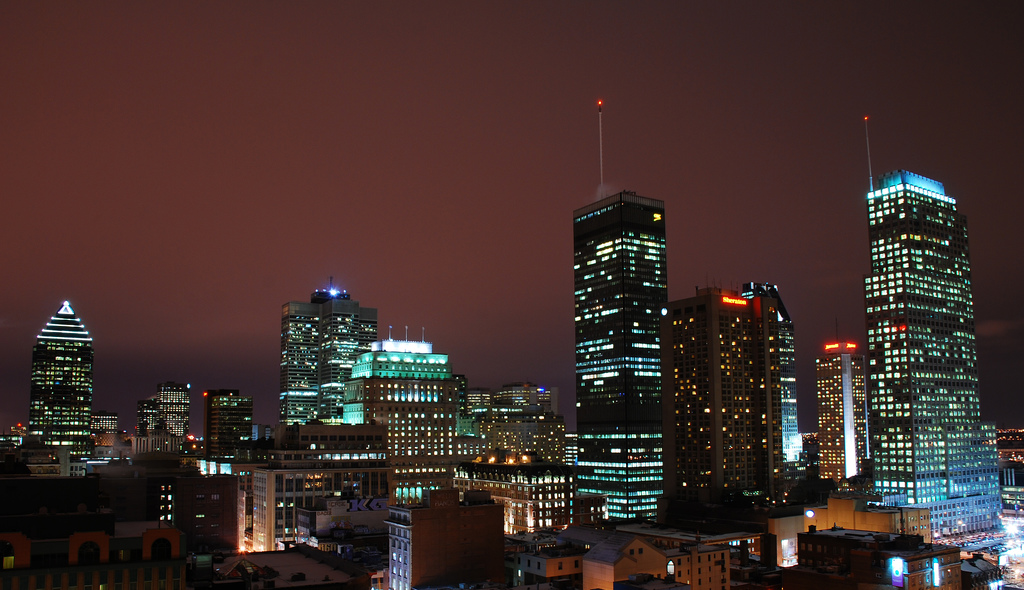 Montreal skyscrapers at night.